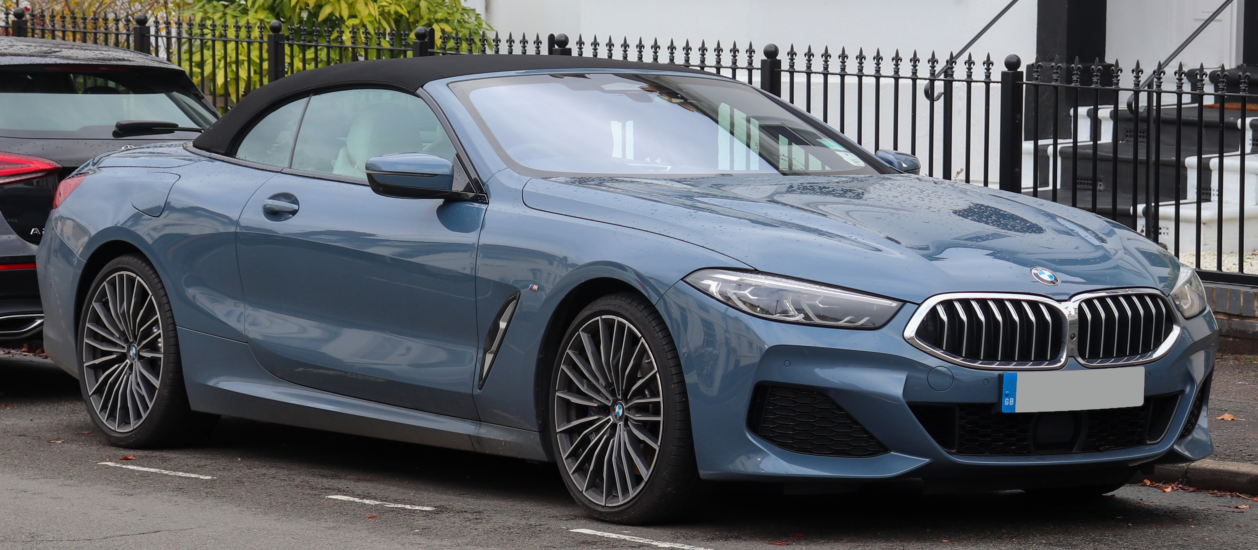 2019 BMW 840d xDrive Automatic Convertible 3.0 Front Taken in Leamington Spa